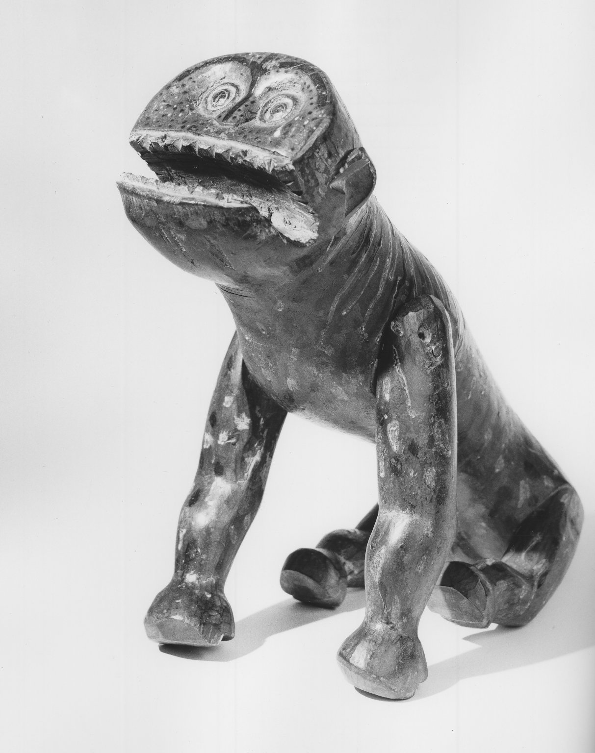 Animal Puppet